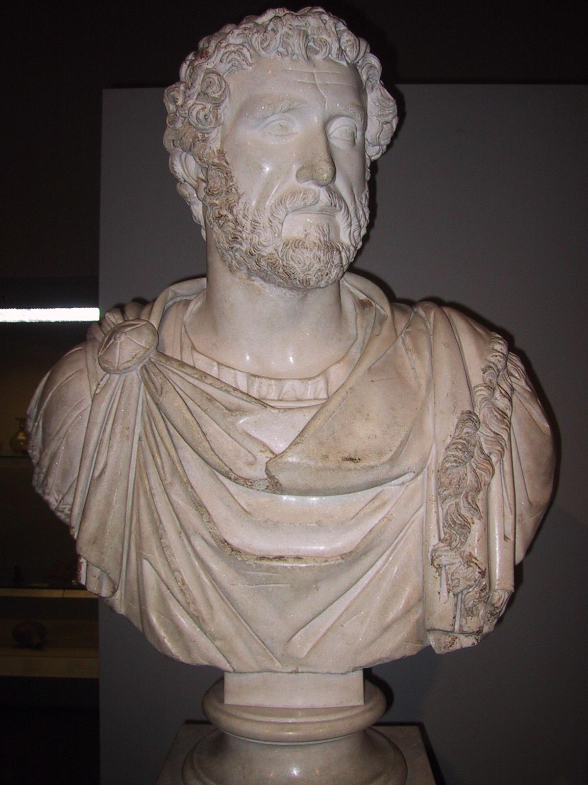 Portrait of Emperor Antoninus Pius. Marble, probably a replica of ca. 160 AD after a prototype created ca. 140 AD. From the house of Jason Magnus at Cyrene, North Africa.